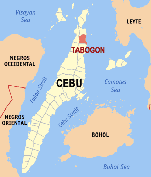 Map of Cebu showing the location of Tabogon